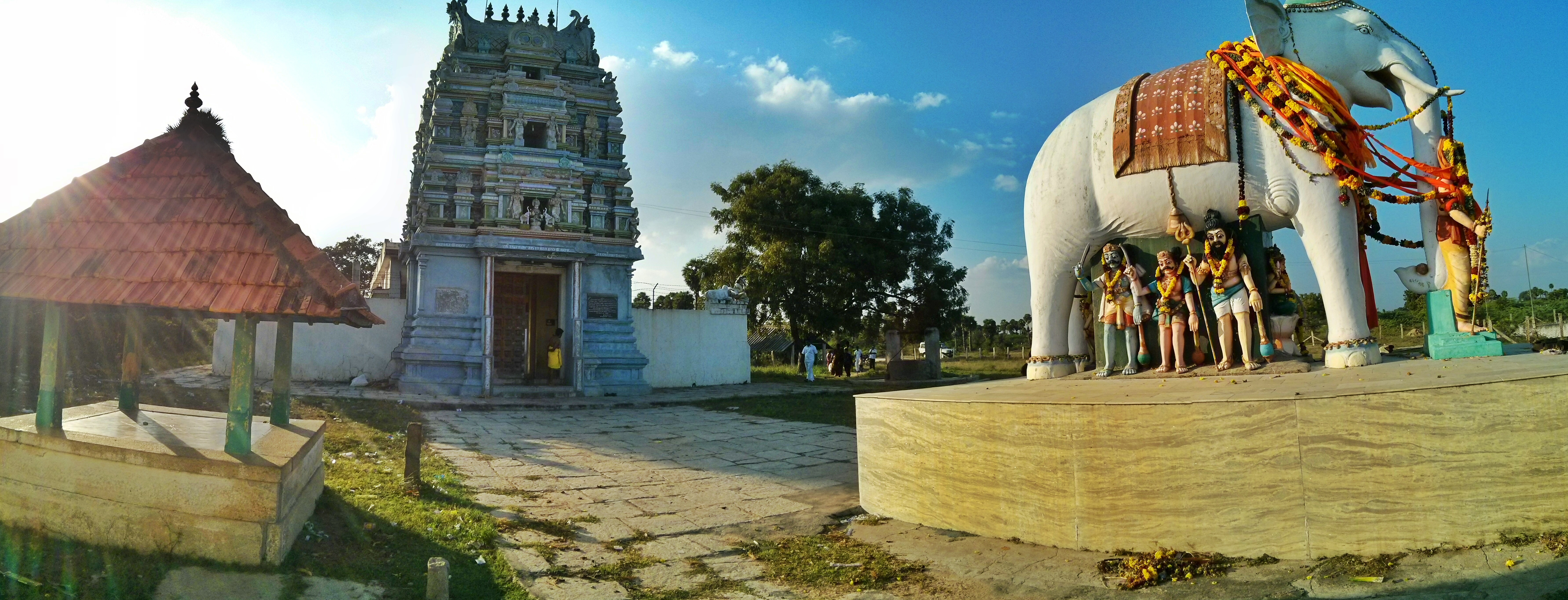 Sri Kadukavalar Temple, a Gramadevata of S. Mampatti Village in Sivagangai District.